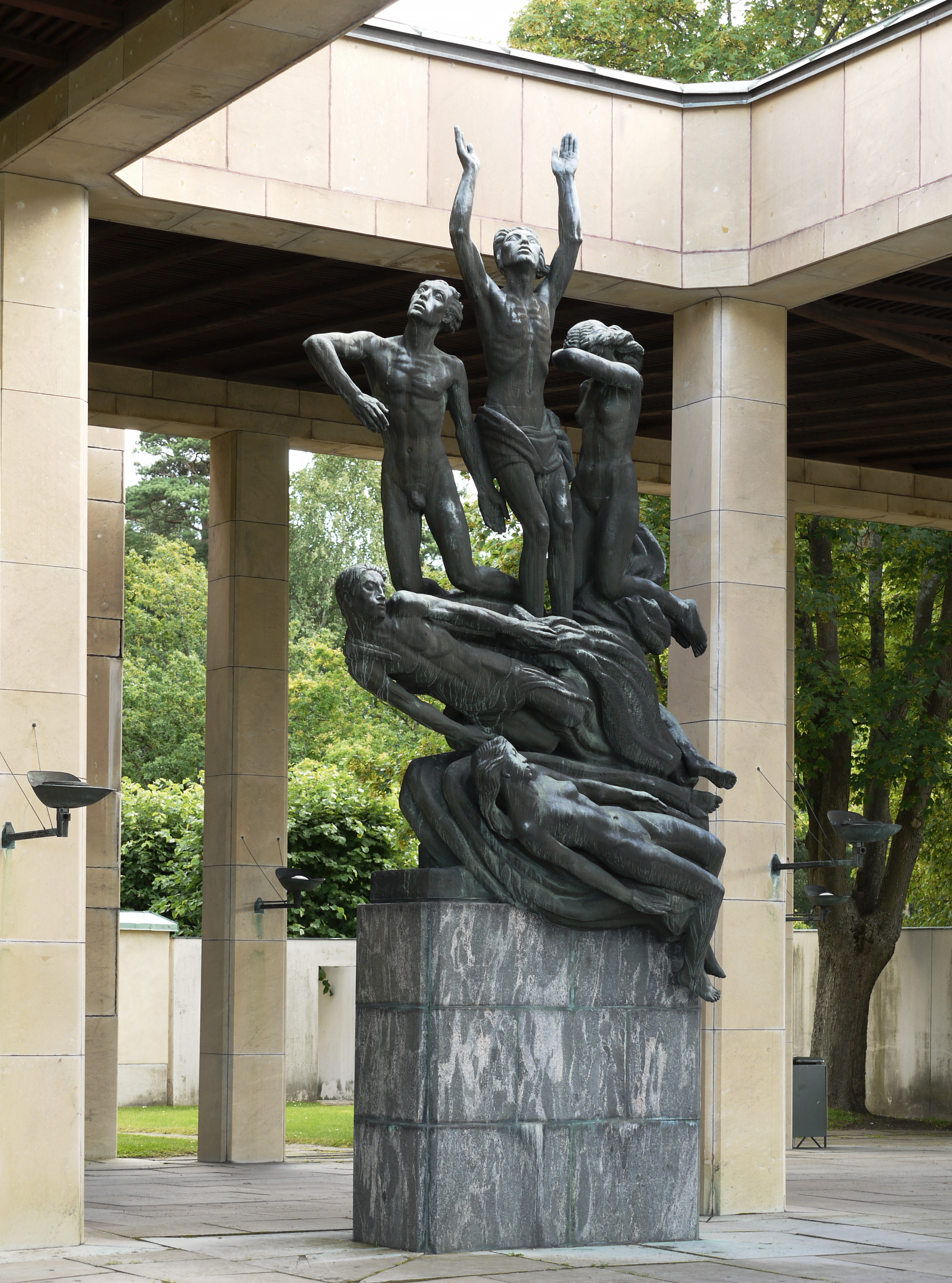 Woodland Cemetery, Resurrection Statue, Stockholm, Sweden.